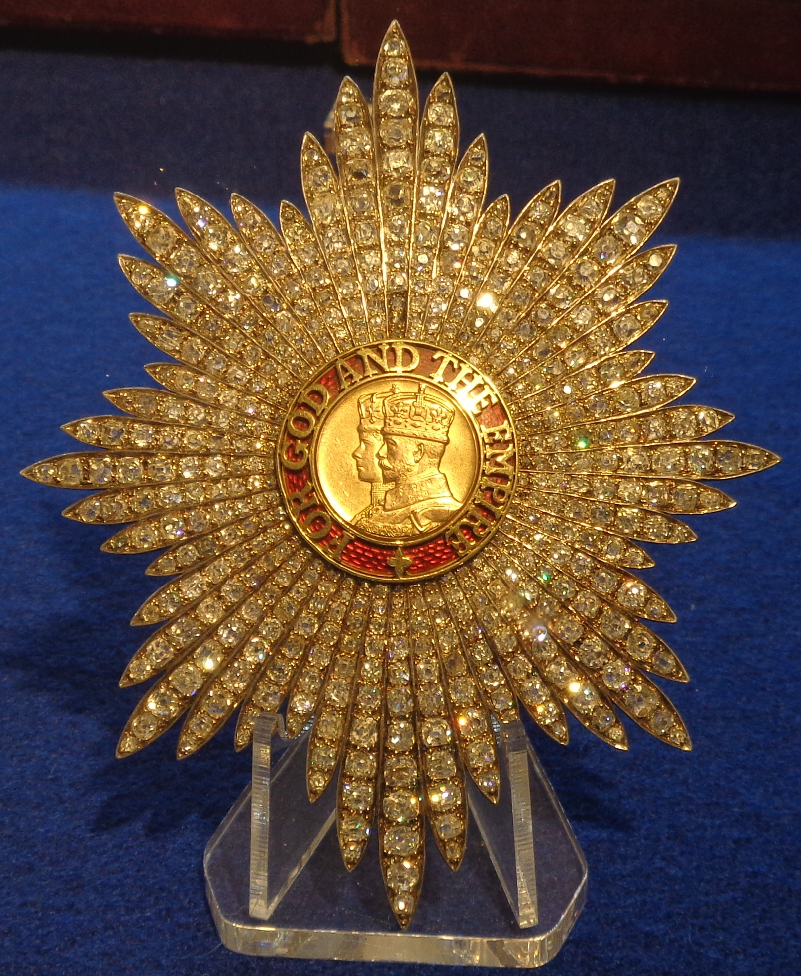 Order of the British Empire, star of Grand Cross with diamonds, 1925-1930. United Kingdom. The exhibition of the Tallinn Museum of Orders of Knighthood, Estonia.